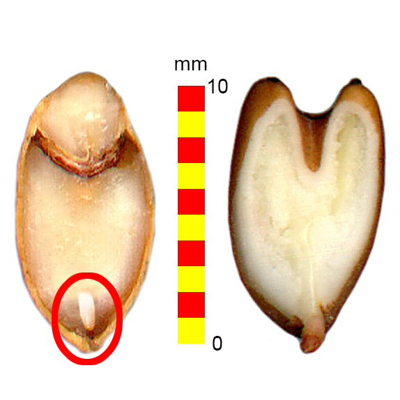 Magnolia grandiflora seed before and after stratification